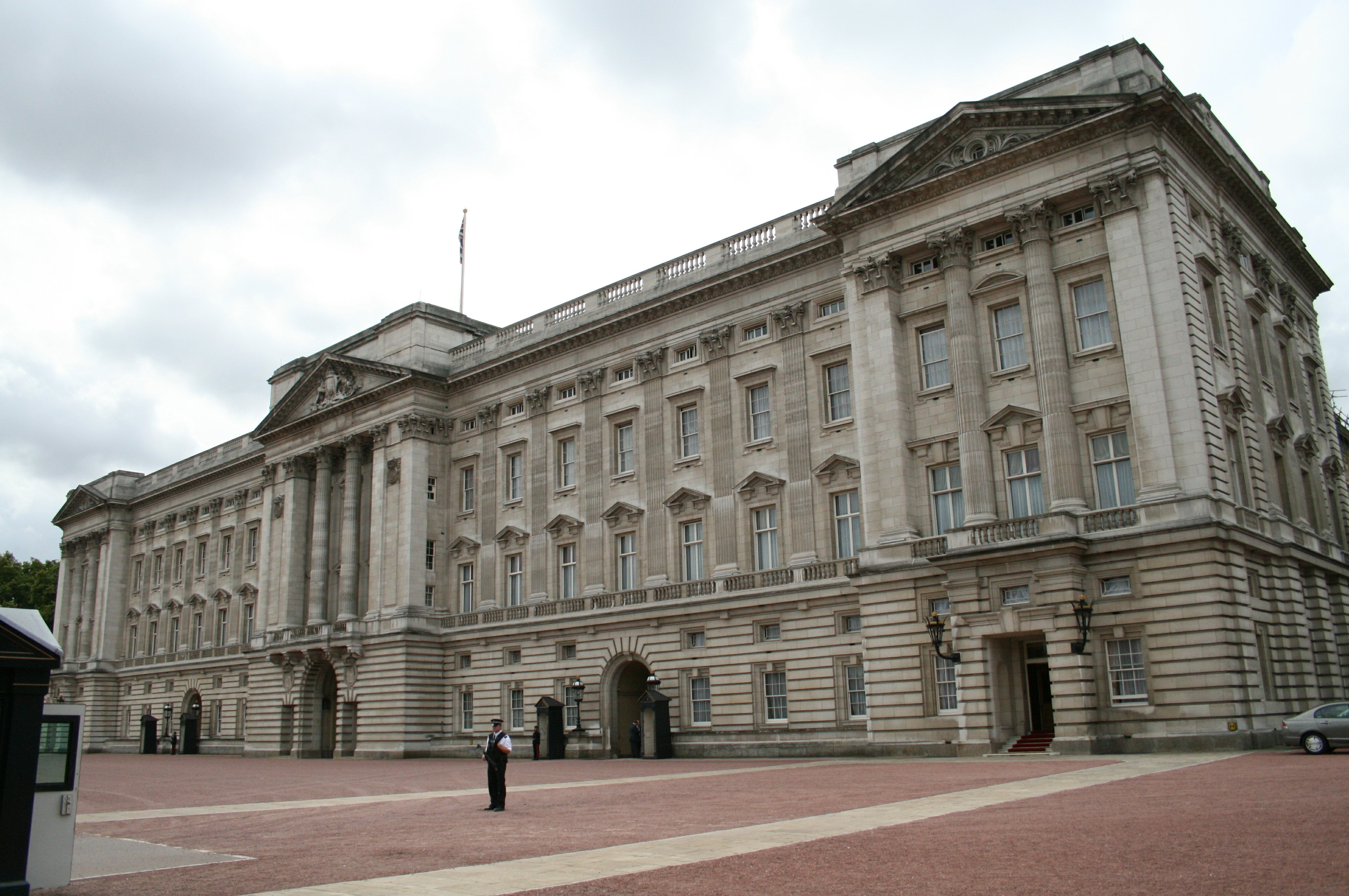 In and around London